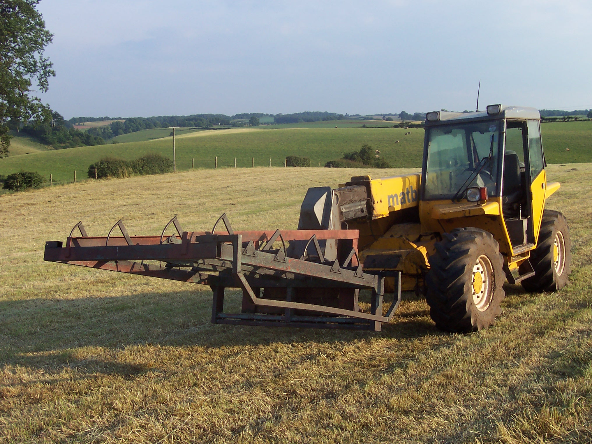 A Matbro TS270 telehandler, somewhere in the United Kingdom presumably. On its front is a flat-8 type bale grab, used to lift 8 small hay or straw square bales of standard size onto trailers. This one was manufactured by Cook Machinery. Also part of the kit is a (bale) sledge that tows behind the baler to line them into 8's (not got a picture though).